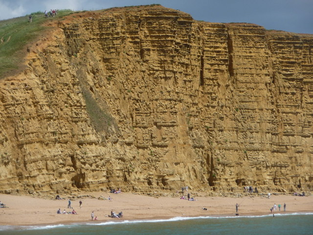 West Bay: East Cliff and beach Looking from the tip of the western harbour pier, towards the striking, rugged sandstone face of the East Cliff – with people enjoying the shingle beach below and the coast path above.